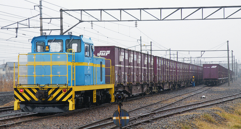 Freight train coached by Paper corporation's switcher at Iwanuma St., Japan.